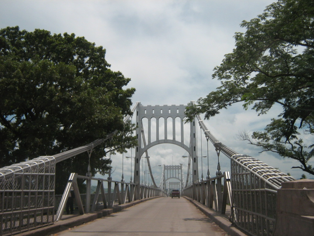 This is the Choluteca suspension bridge. Choluteca city is a municipality in the Honduran department of Choluteca.